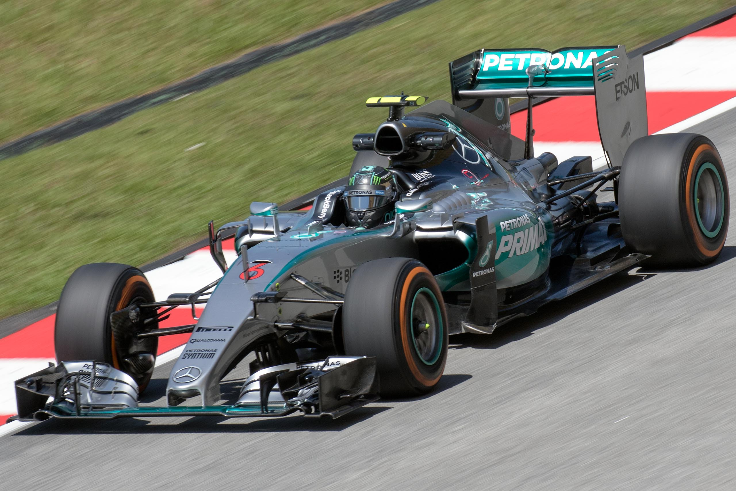 Formula One 2015 Rd.2 Malaysian GP: Nico Rosberg (Mercedes GP)